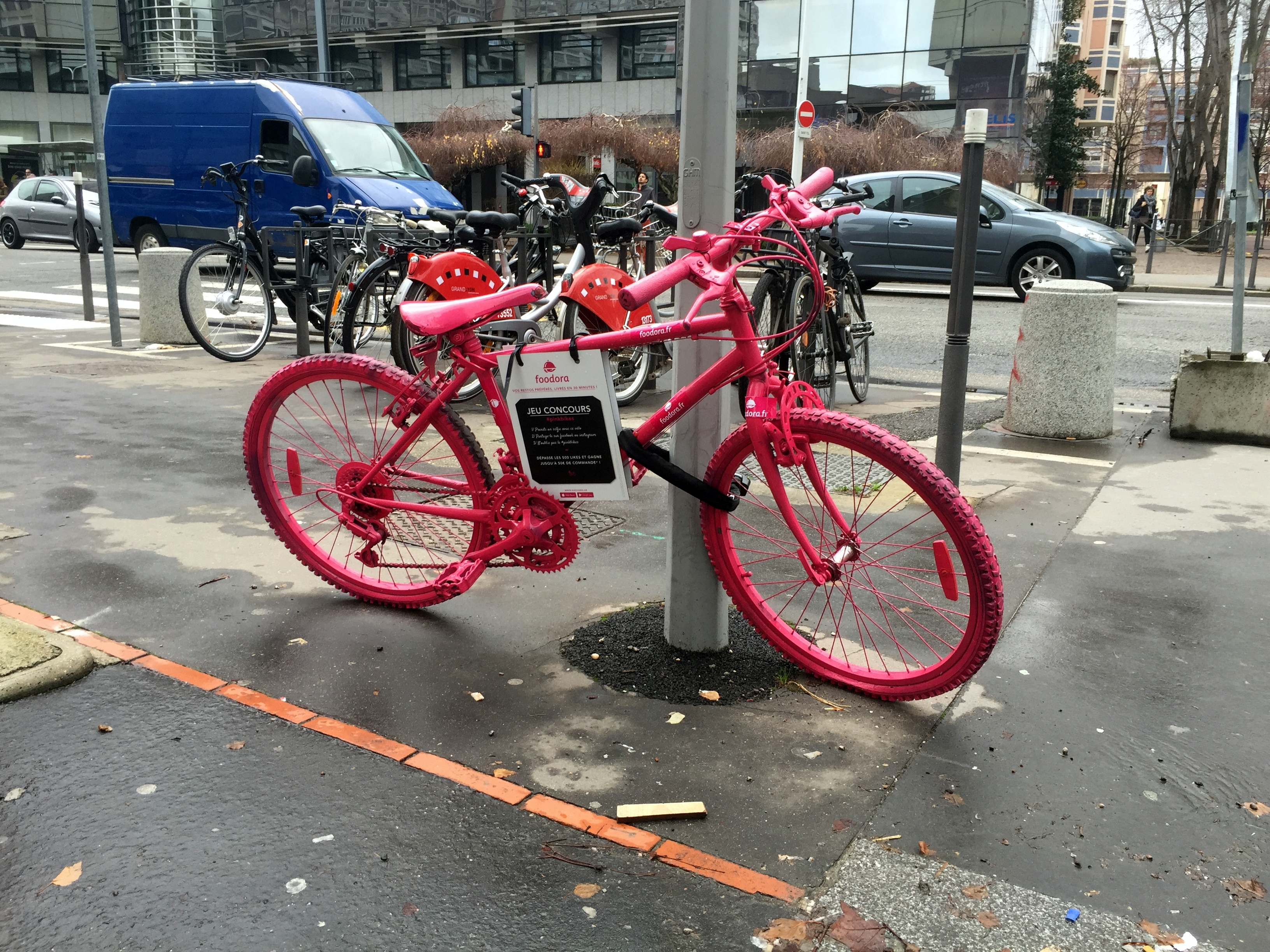 Image of Lyon 3e.